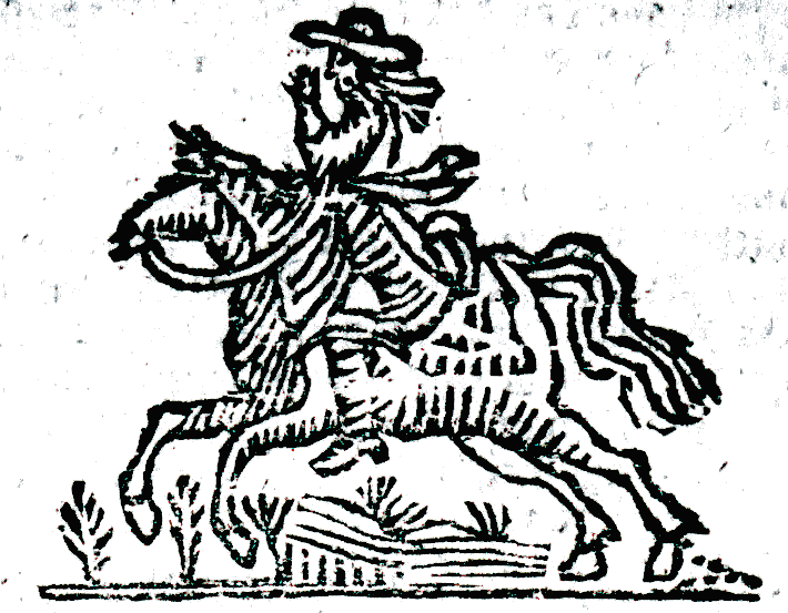 Count Edzard I of East Frisia in a 16th-century prophecy (1790)